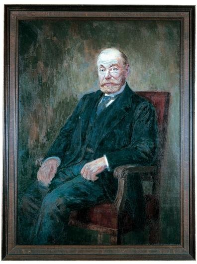 Franz Haniel junior (1842-1916), German industrialist.